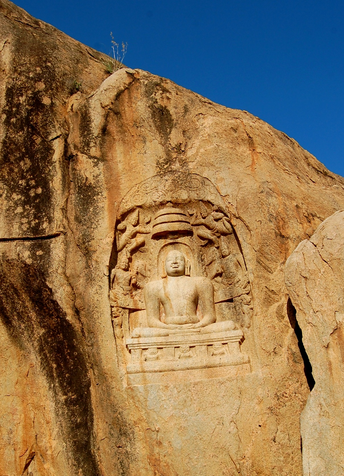 Rock –Cut Bas Relief Of Jain Images With Inscription In Samanar Malai